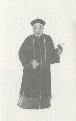 Weng Fanggang